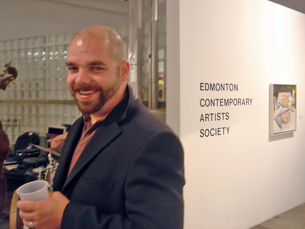 Artist Mark Bellows photographed at the Edmonton Contemporary Artists' Society's 15th Annual Painting and Sculpture Exhibit, at the Peter Robertson Gallery in Edmonton.